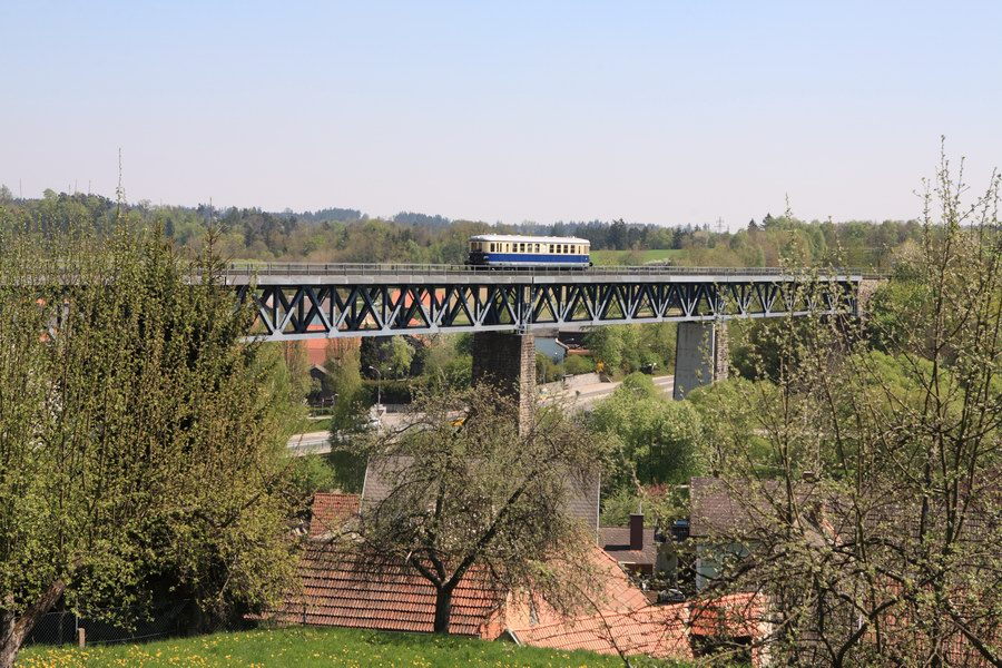 Viadukt over the Kamp river in Zwettl with diesel unit ÖBB 5042.14, Lower Austria, Austria